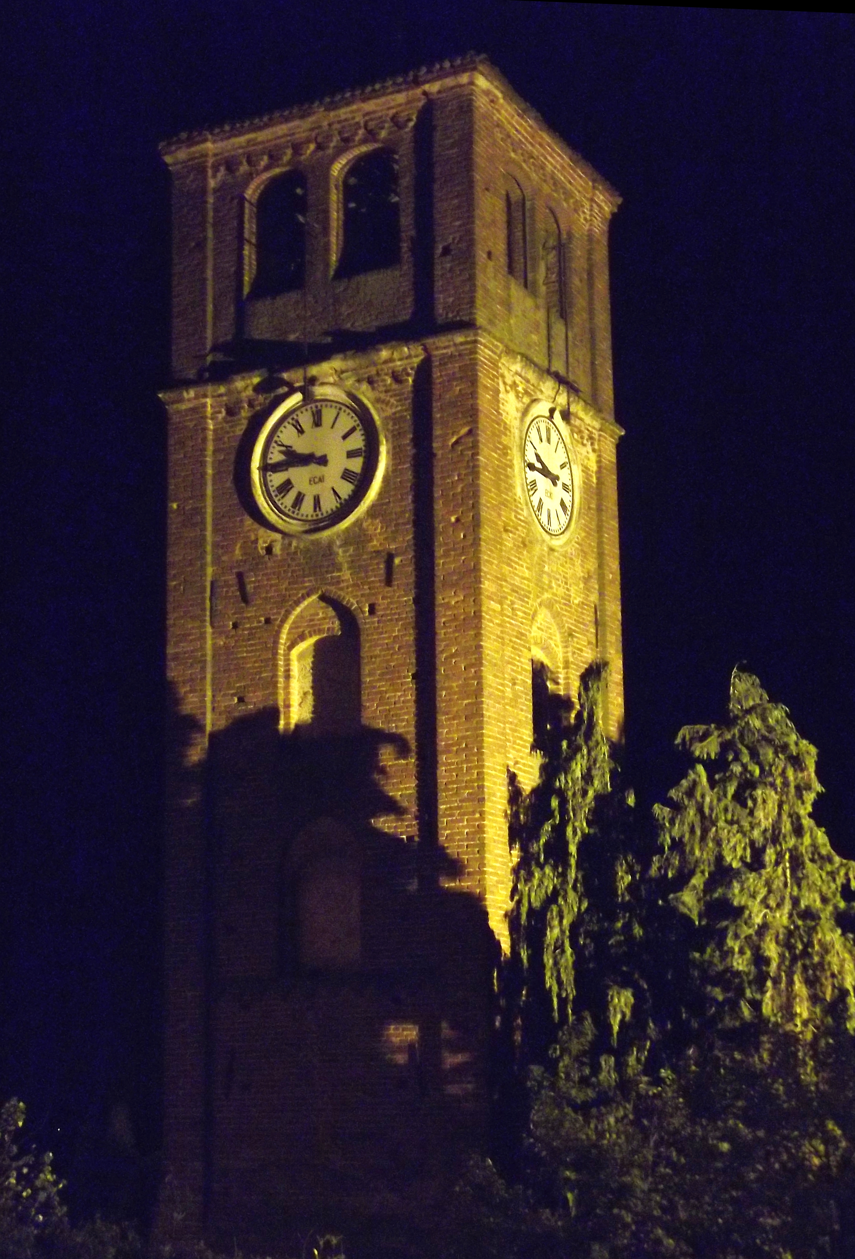 Pralormo (TO, Italy): bell tower